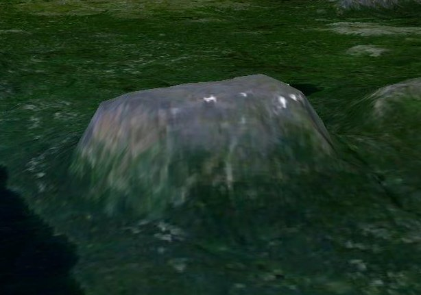 Eastern flank of Tuya Butte.